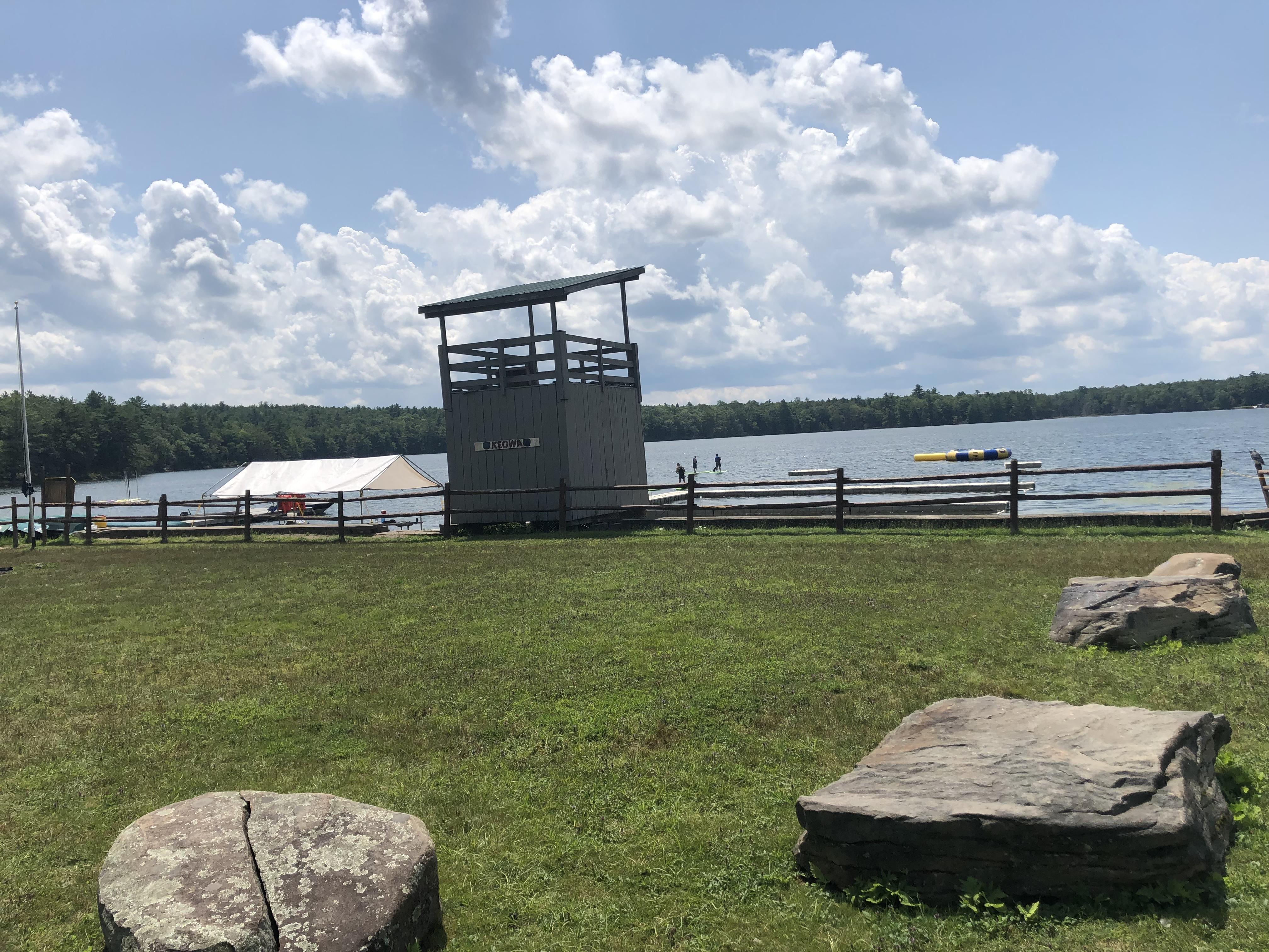 Camp Keowa waterfront at Crystal Lake in the Ten Mile River Scout Camps. The camps are owned by the Greater New York Councils, Boy Scouts of America.